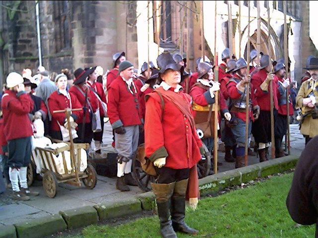 Members of the Sealed Knot parade outside St Mary's parish church, Nantwich, Cheshire to commemorate Holly Holy Day, 28 January 2006